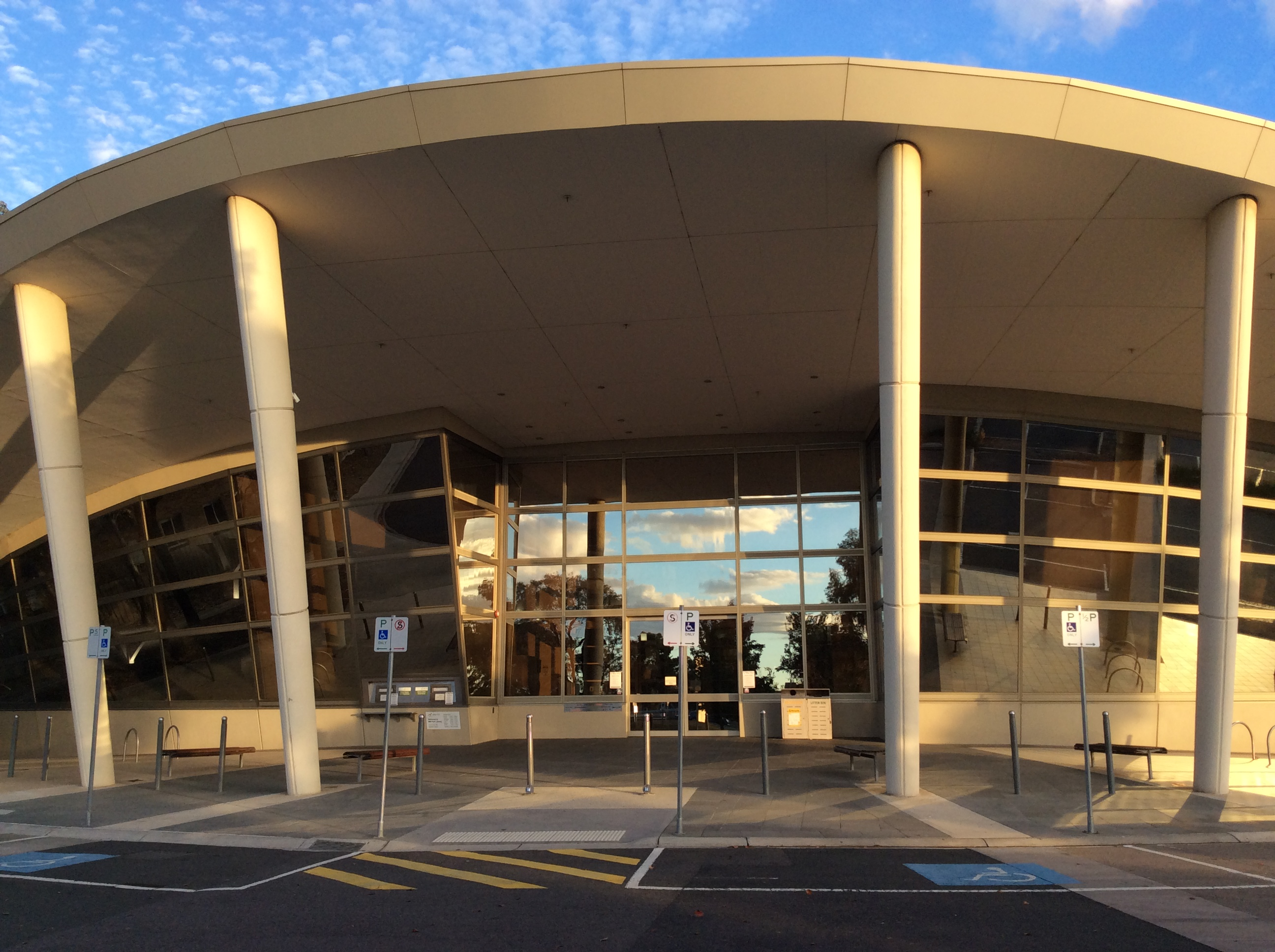 Entrance to Mill Park Public Library, in a suburb of Melbourne, Victoria, Australia